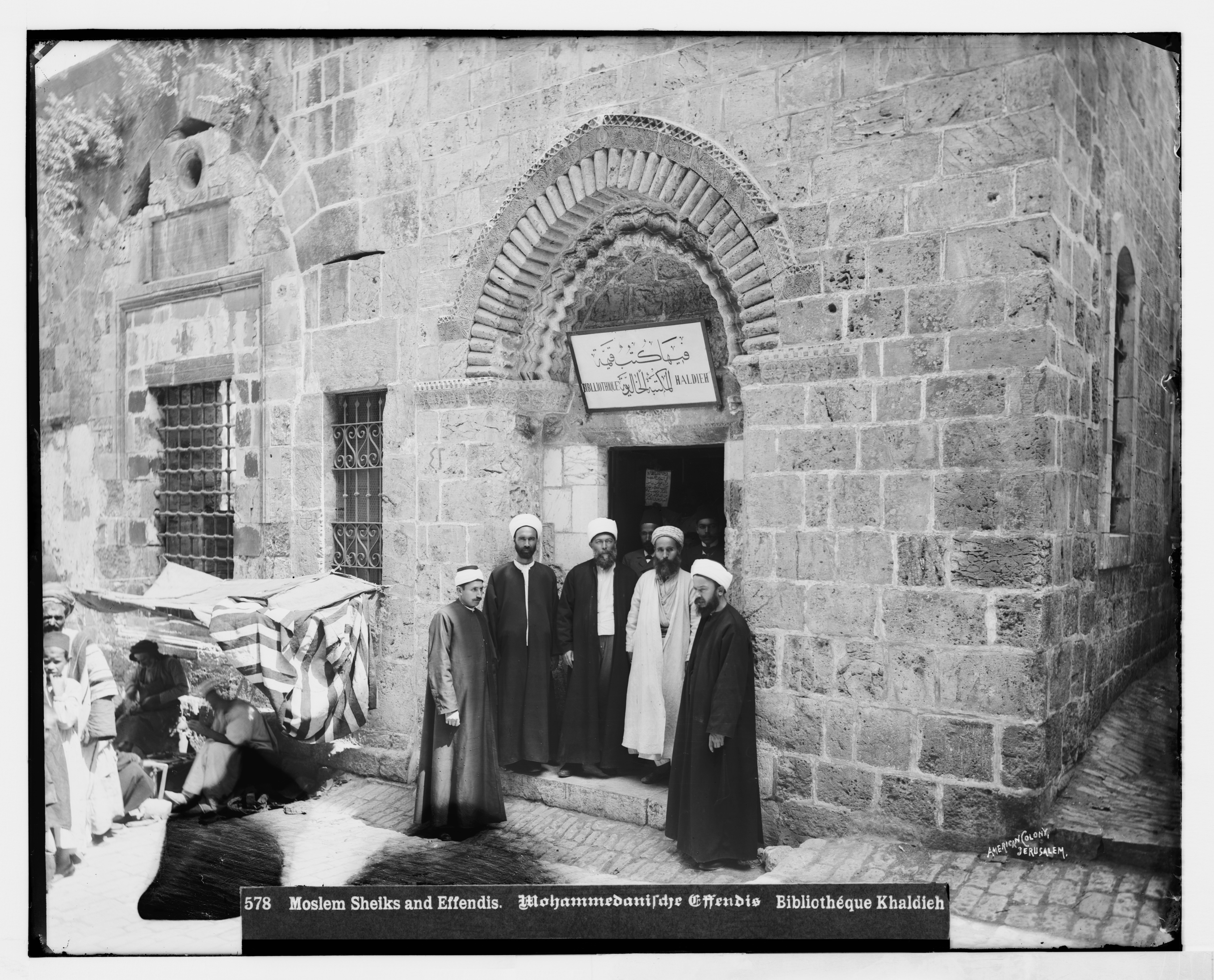 Title: Costumes and characters, etc. Mohammedan [i.e., Muslim] sheikhs and effendies in front of Bibboth Khaldieh [i.e., Khalidiyah Library], Jerusalem Abstract/medium: G. Eric and Edith Matson Photograph Collection Physical description: 1 negative